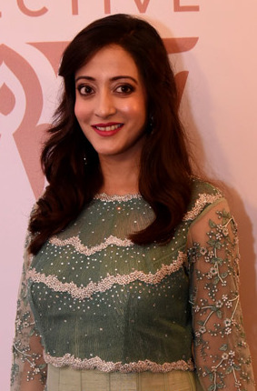 Raima Sen graces the wedding collective on Oct 6, 2017